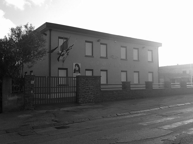 The seat of the Province of Carbonia-Iglesias of via Mazzini in Carbonia, Sardinia, Italy